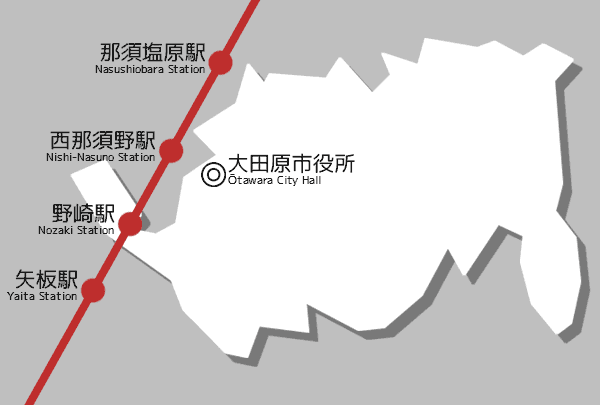 Map of railway stations around Otawara City, Tochigi, Japan.